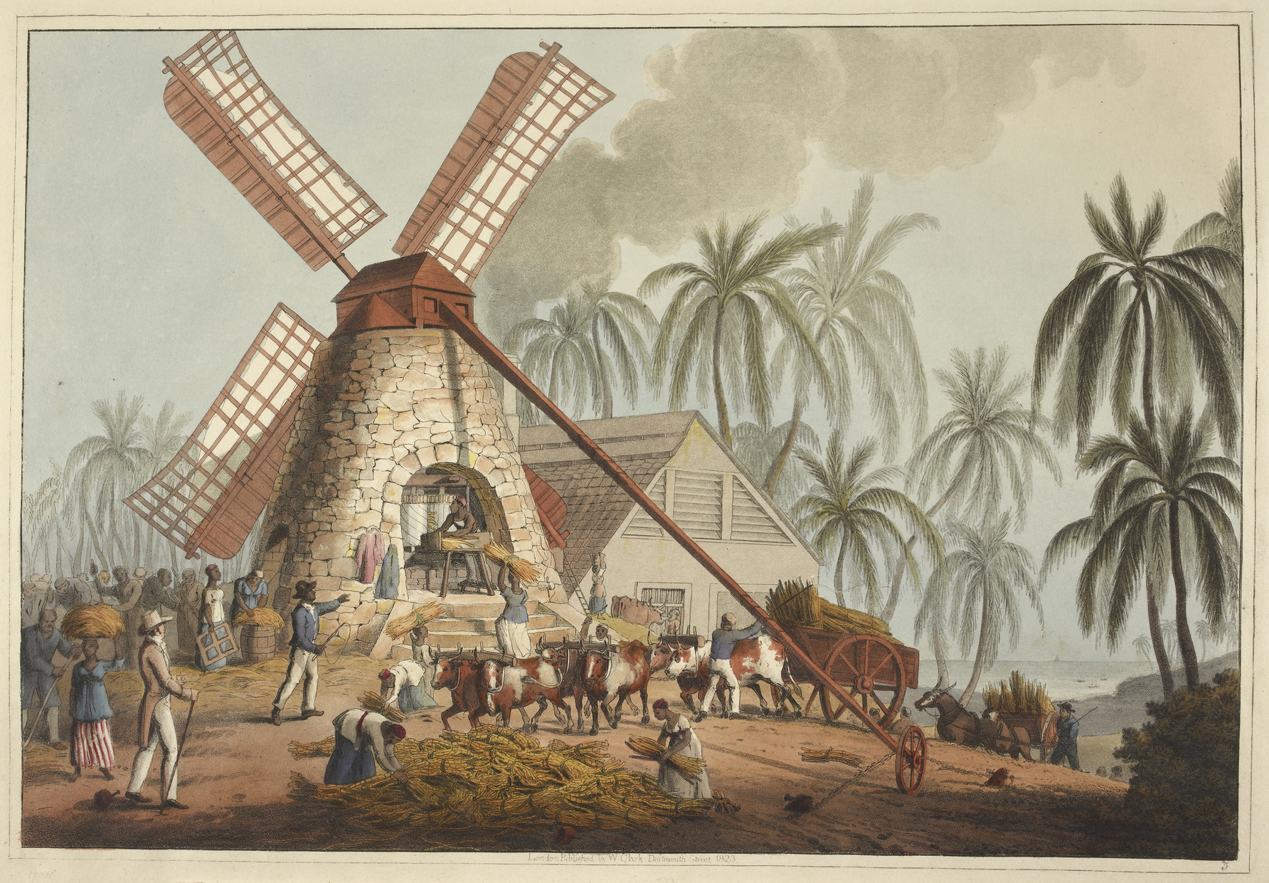 The Mill Yard Grinding sugar cane in a windmill.